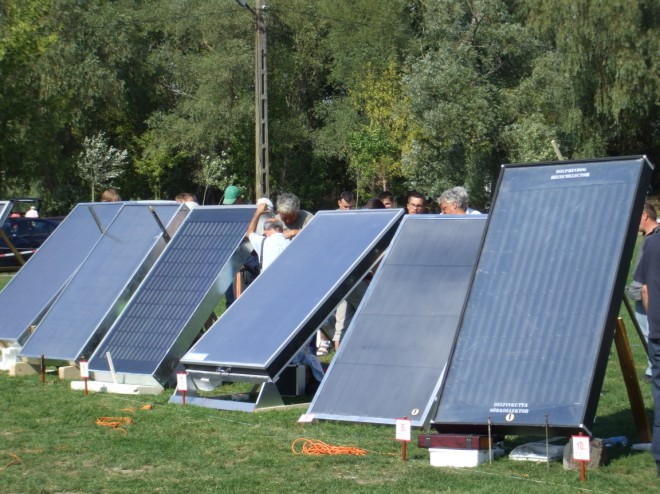 Beer bottle collectors at a construction competition, Solt, Hungary, August, 2007